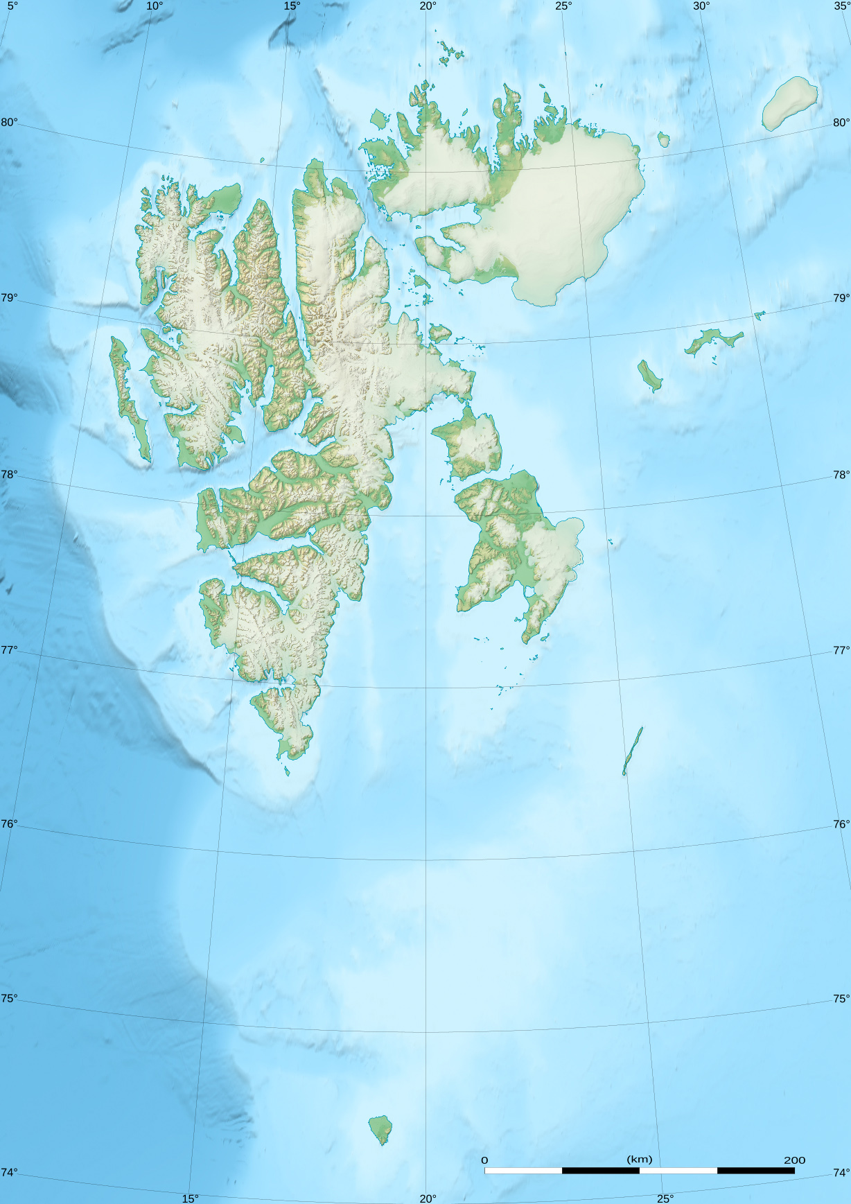 Blank relief location map of Svalbard archipelago, Norway.